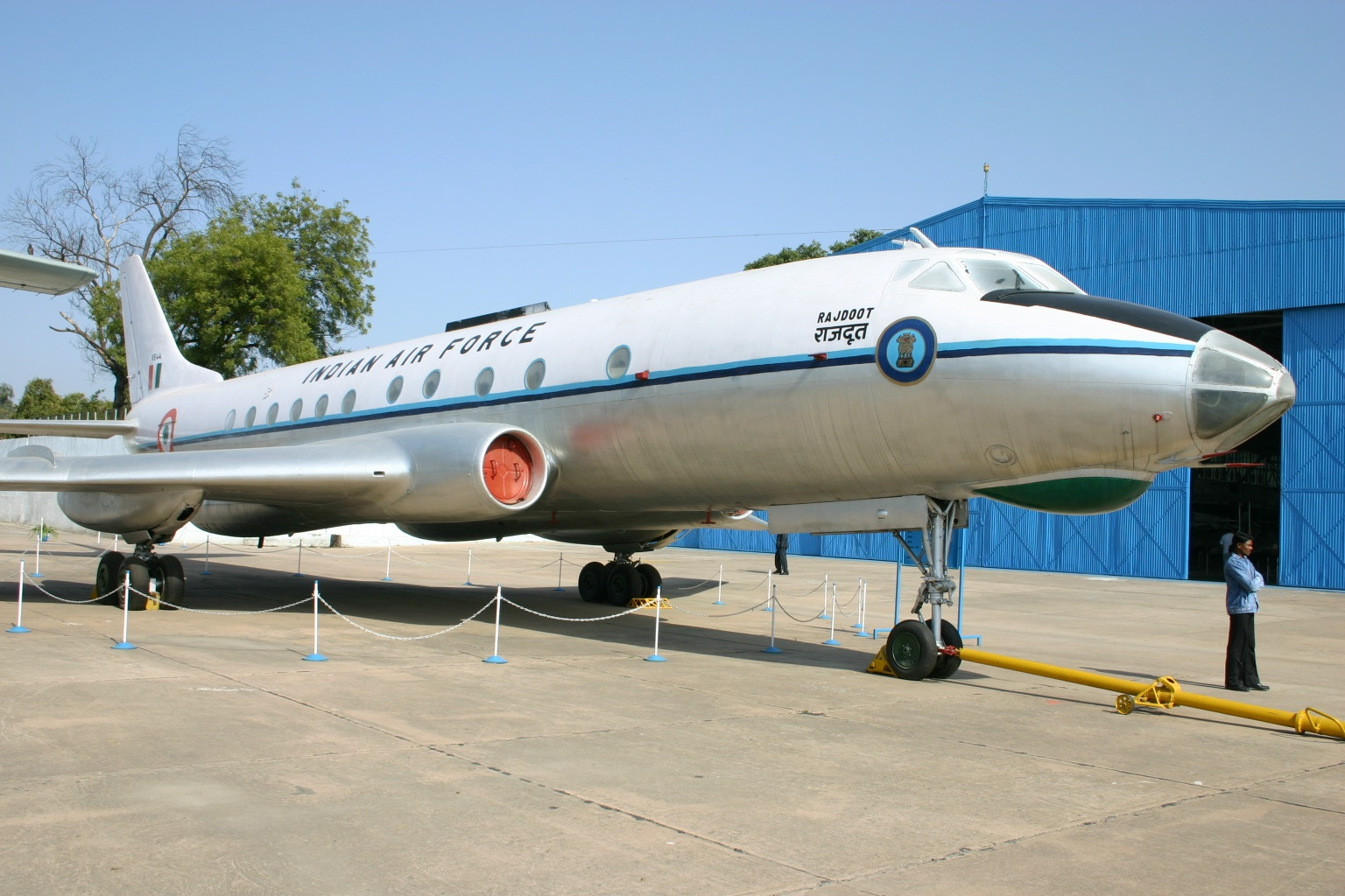 Tupolev Tu-124 at Indian Air Force Museum, Palam